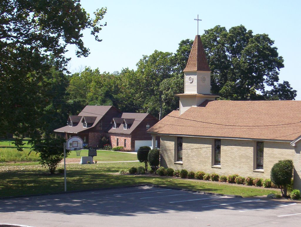 Randolph United Methodist Church in Randolph, Tennessee. I made the photo myself, feel free to use it.